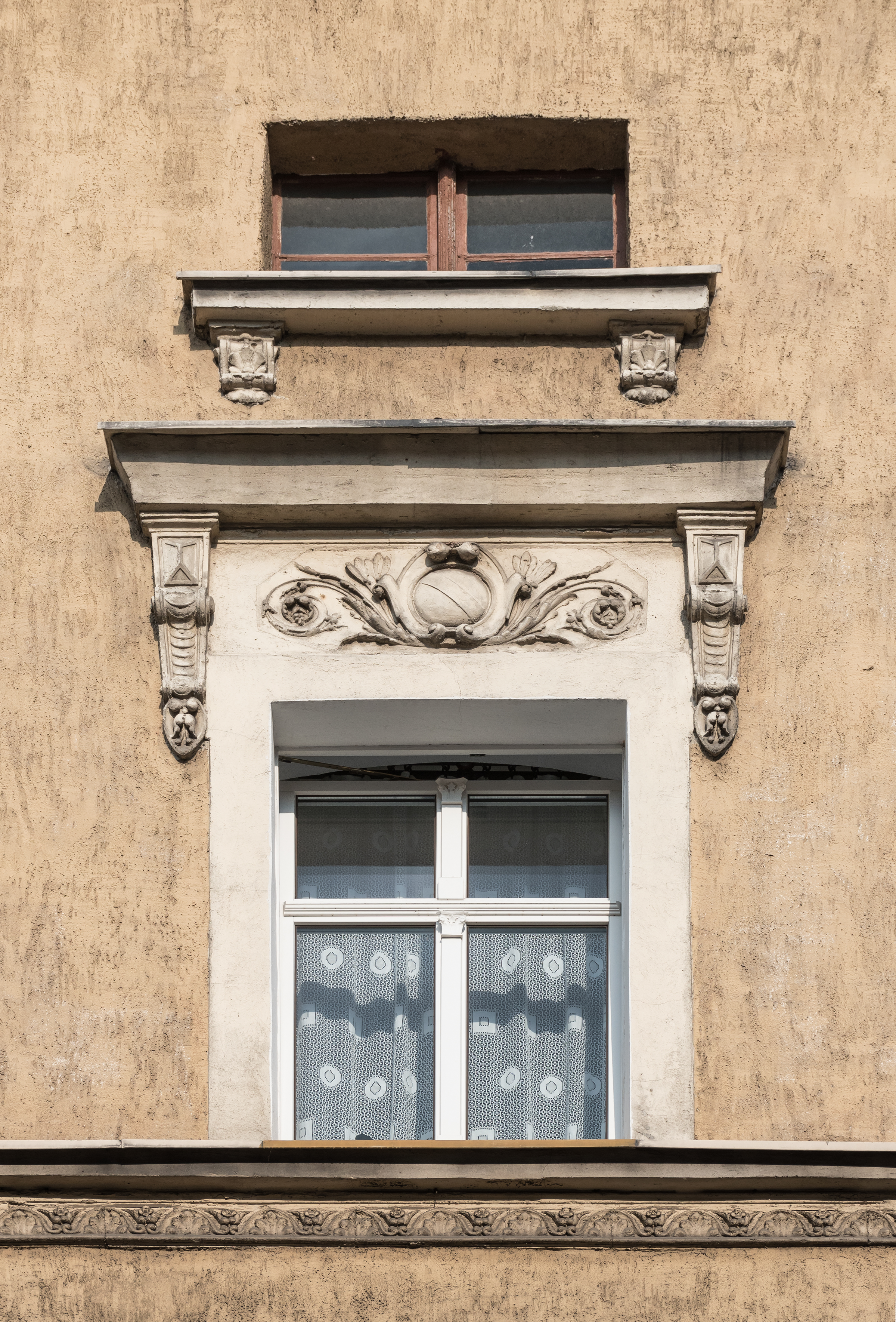 23 Piastów Street in Nowa Ruda